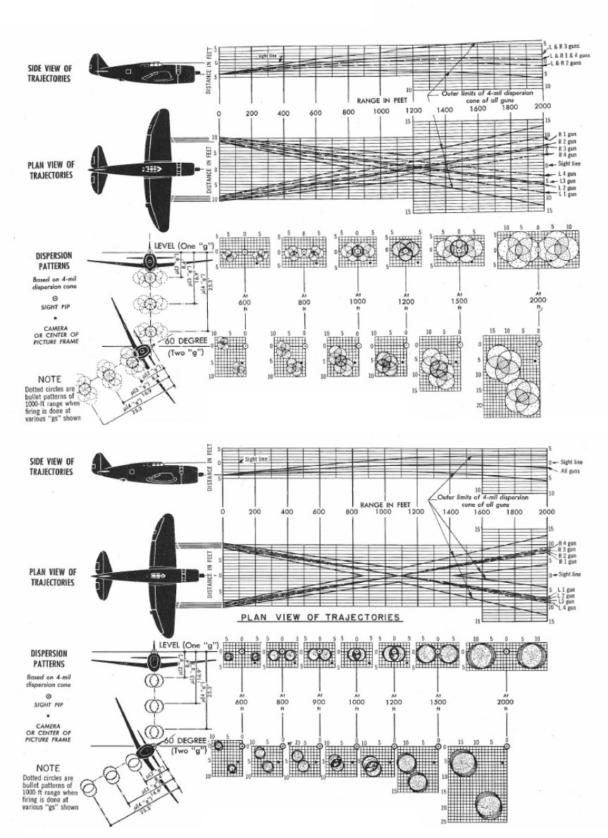 This is a derivative work based on File:P-47 gun harmonization 1945 page 34.jpg and File:P-47 gun harmonization 1945 page 35.jpg. Parts of the two pages of the USAAF manual have been combined to show two gun harmonization schemes more clearly in one image.